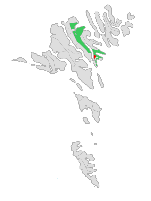 Location of Runavíkar kommuna at the Faroe Islands, with borders as of 2009.